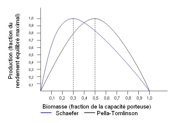 "Yield (equal to the surplus production) as a proportion of MSY for the Schaefer and Pella-Tomlinson models." from: Maunder, M.N.; Brian Fath (2008) "Maximum Sustainable Yield" in Encyclopedia of Ecology, Oxford: Academic Press, pp. 2,292-2,296 Retrieved on 14 March 2009. ISBN: 978-0-08-045405-4.